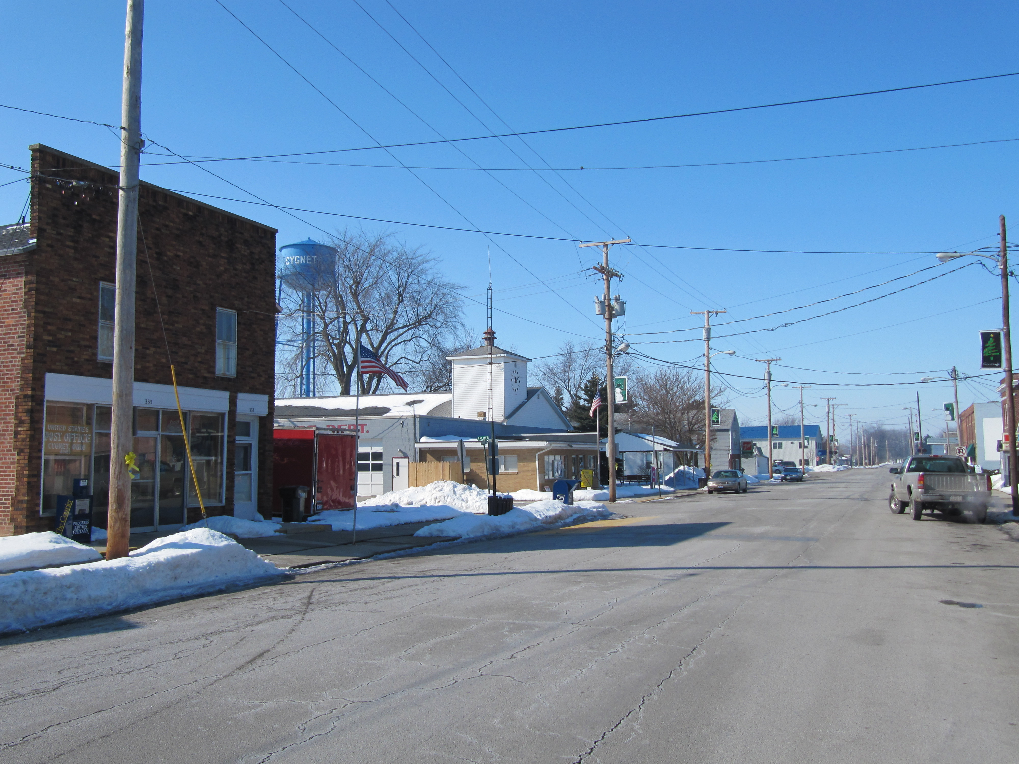 Photograph of the village of Cygnet, Ohioen, taken at street level from the intersection of Front and Venango streets, looking West toward the local office of the United States Postal Serviceen, Fire stationen, and Water toweren.